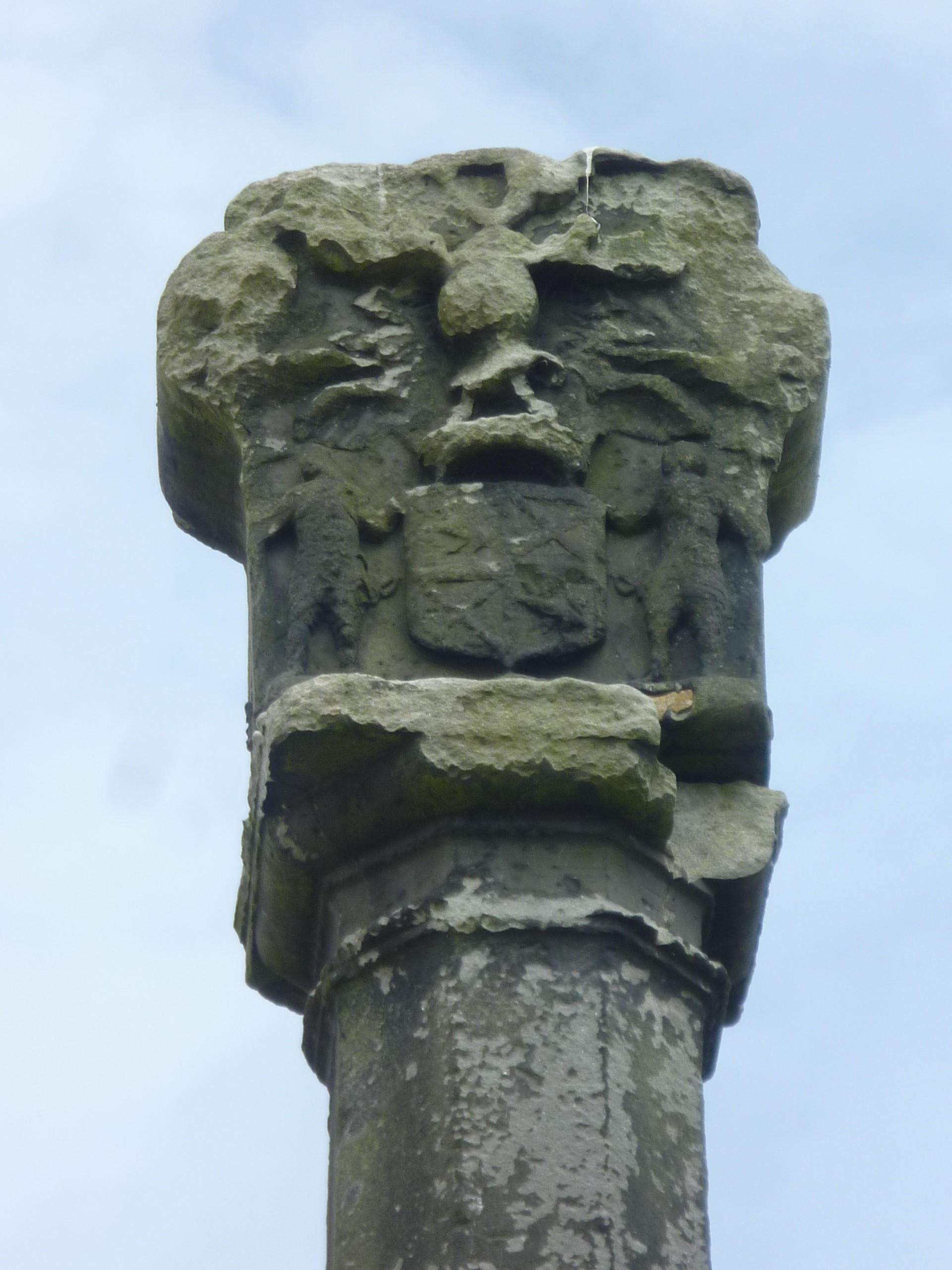 Arms of the Bruce family, earls of Kincardine from 1647